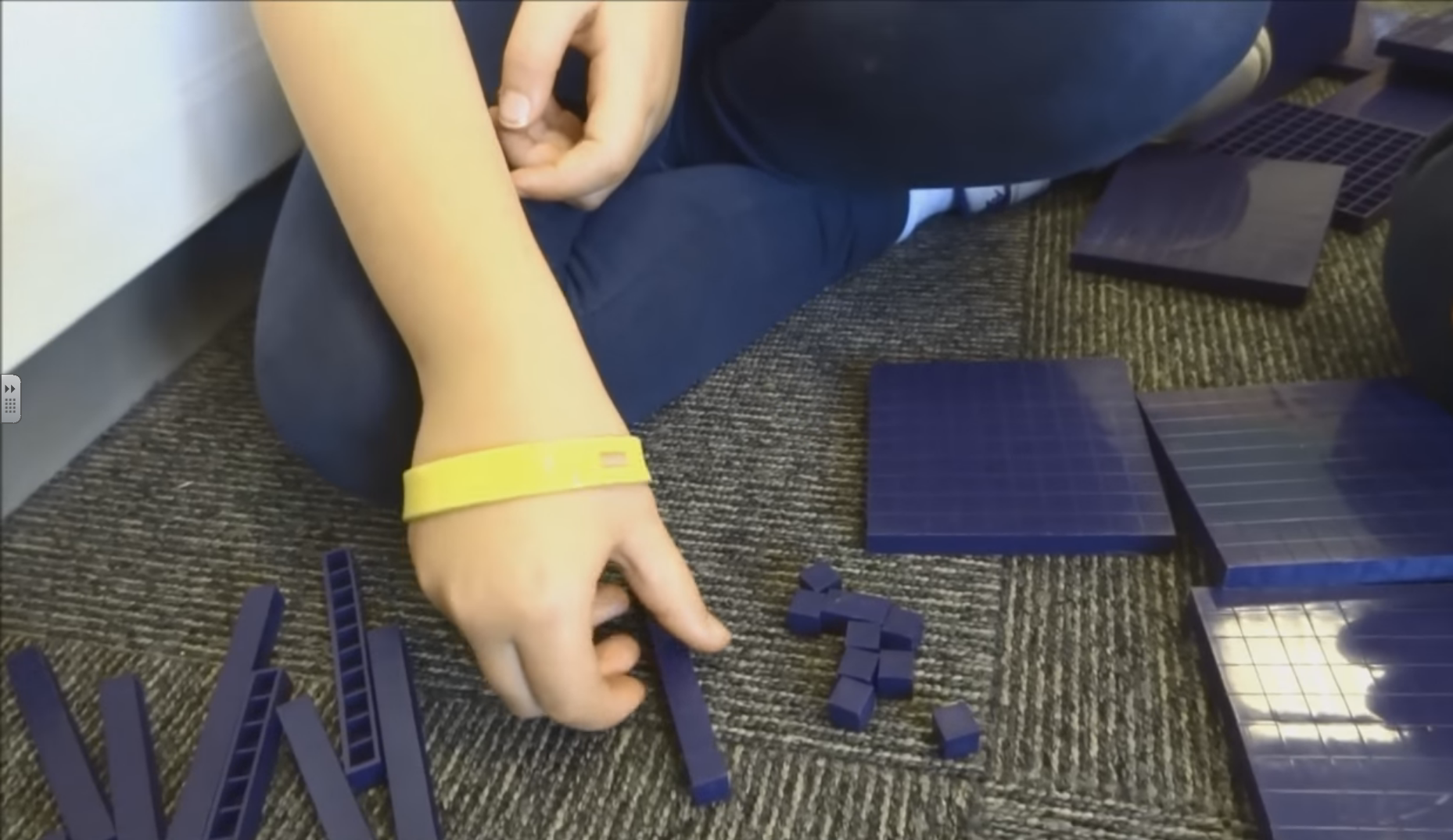 Purple plastic Dienes or Base ten equipment used in a classroom